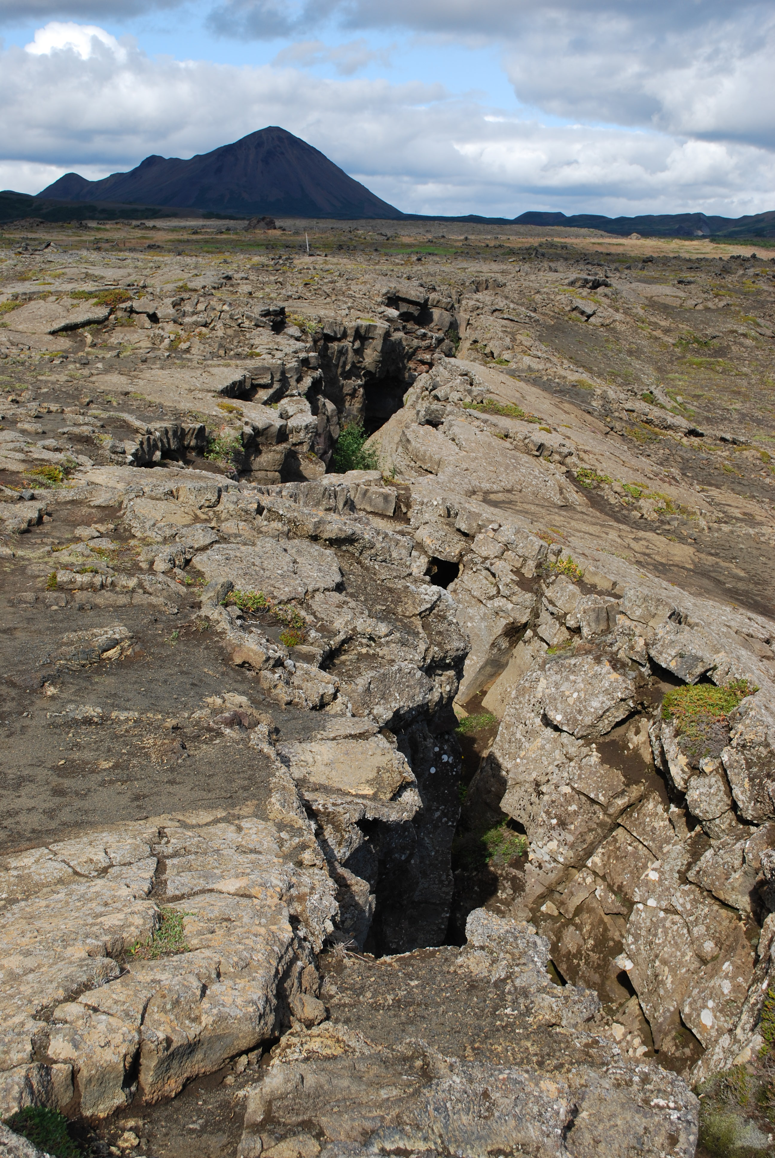 Landscape above Grjótagjá caves near Mývatn lake, Iceland